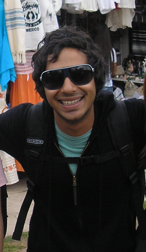 Kunal Nayyar shot on 2008 on a tour with the rest of the big bang theory cast.